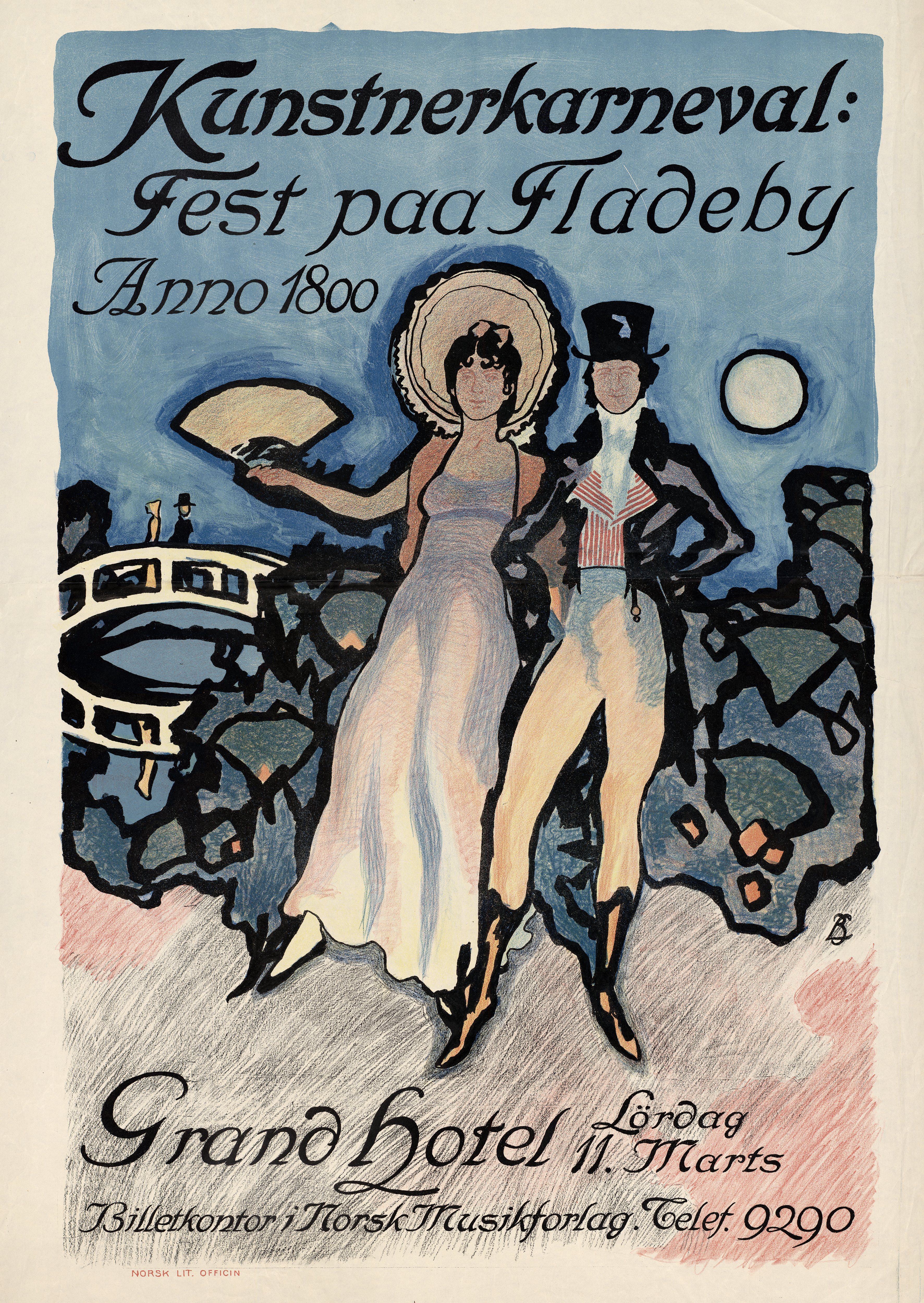 Beskrivelse / Description: Plakat / Poster. Dato / Date: 1911. Kreditering / Credit: Brynjulf Larsson (1881-1920). Utgiver: Kunstnerforeningen. Trykkeri / Printing House: Norsk lithografisk Officin. Trykkemetode / Printing method: Litografi, 108 x 76 cm. Eier / Owner Institution: Nasjonalbiblioteket / National Library of Norway. Bildesignatur / Image Number: plktr_05552